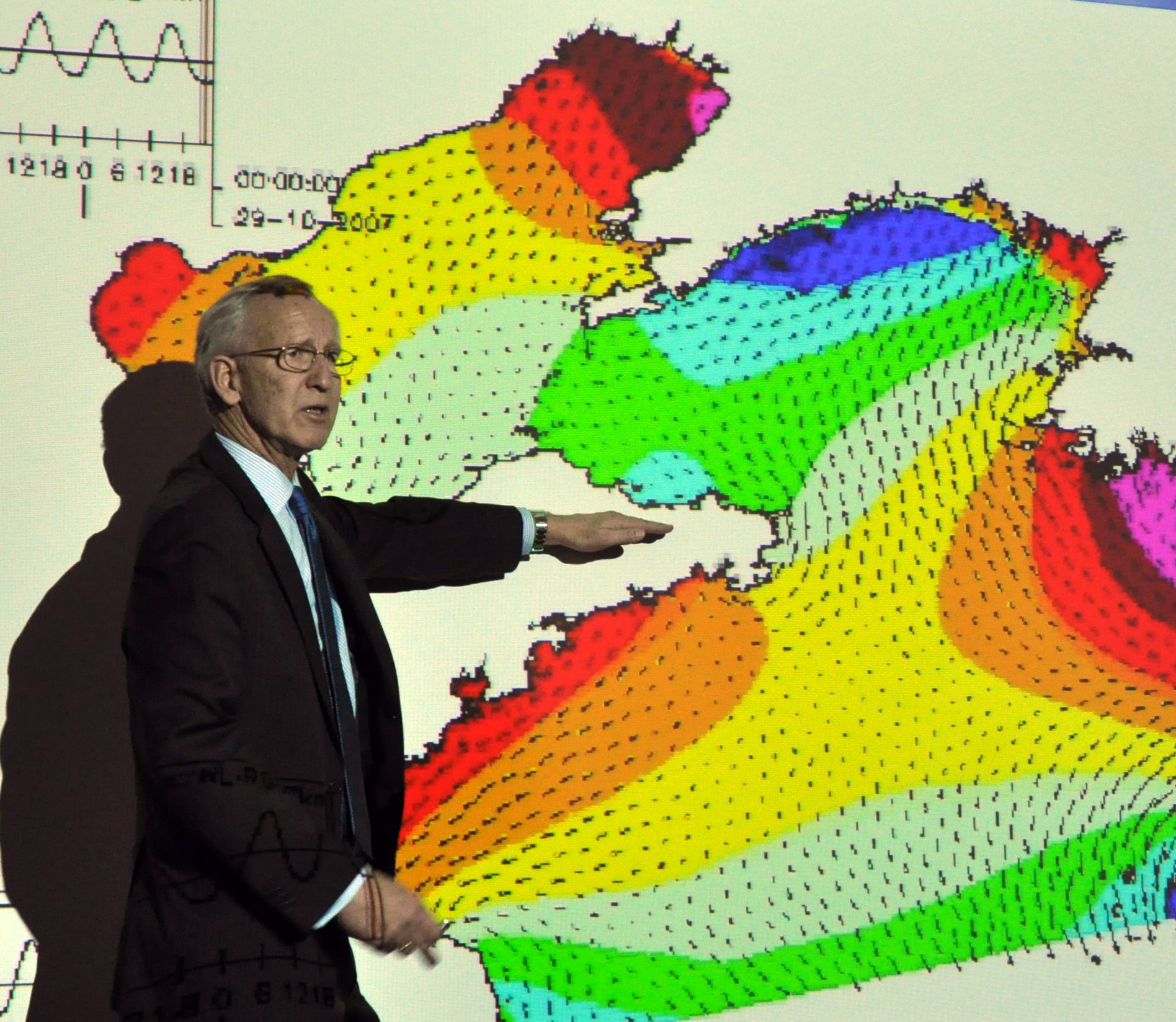 Co-inventor Kees Hulsbergen presents Dynamic Tidal Power at Tsinghua University in Beijing, February 2010.